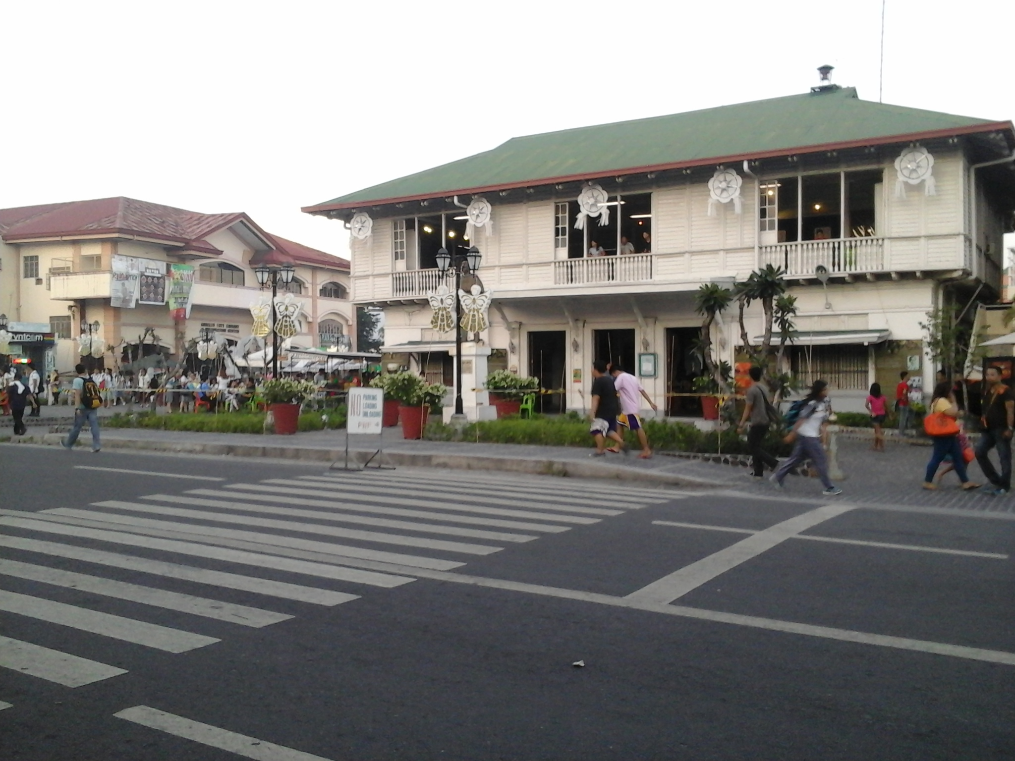 This photo shows the Museo Ning Angeles and the Angeles City Public Library during the Christmas season.